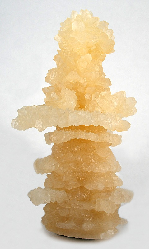 Calcite Locality: Li Gian Mine, Wenshan Autonomous Prefecture, Yunnan Province, China (Locality at ) Size: cabinet, 13.0 x 7.4 x 5.2 cm Calcite stalactite A surreal stalactitic growth of calcite, culminating in a crystallized knob atop, and with a bizarre and very eye-catching satellite system of "rings" rotating around it like hula hoops. Never seen a calcite quite like this.